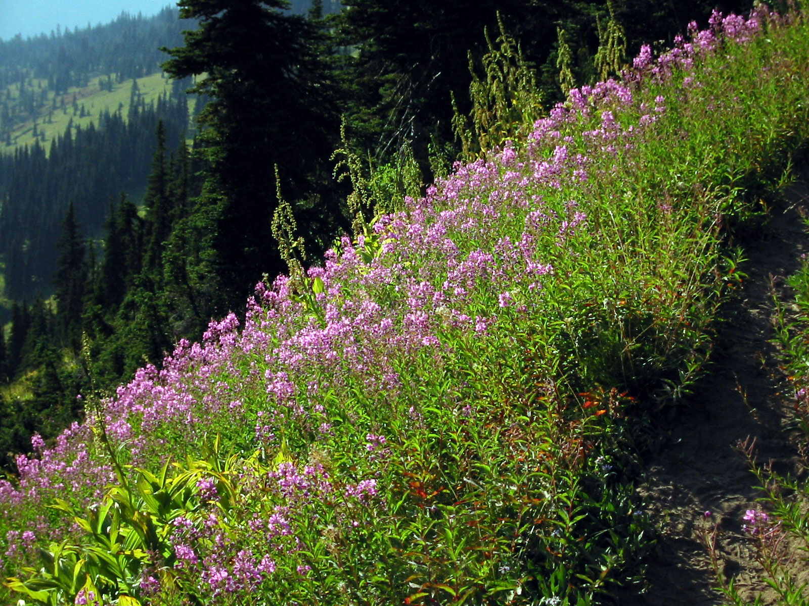 Fireweed and foot path right foreground